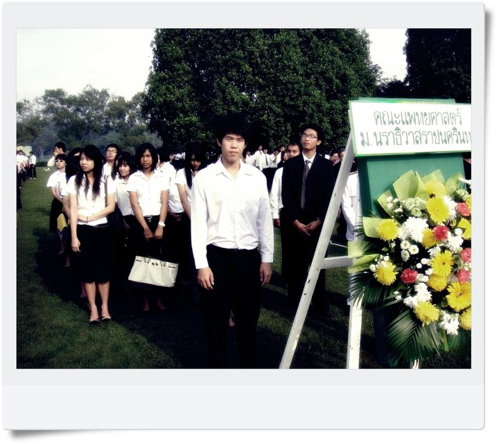 mahidol day